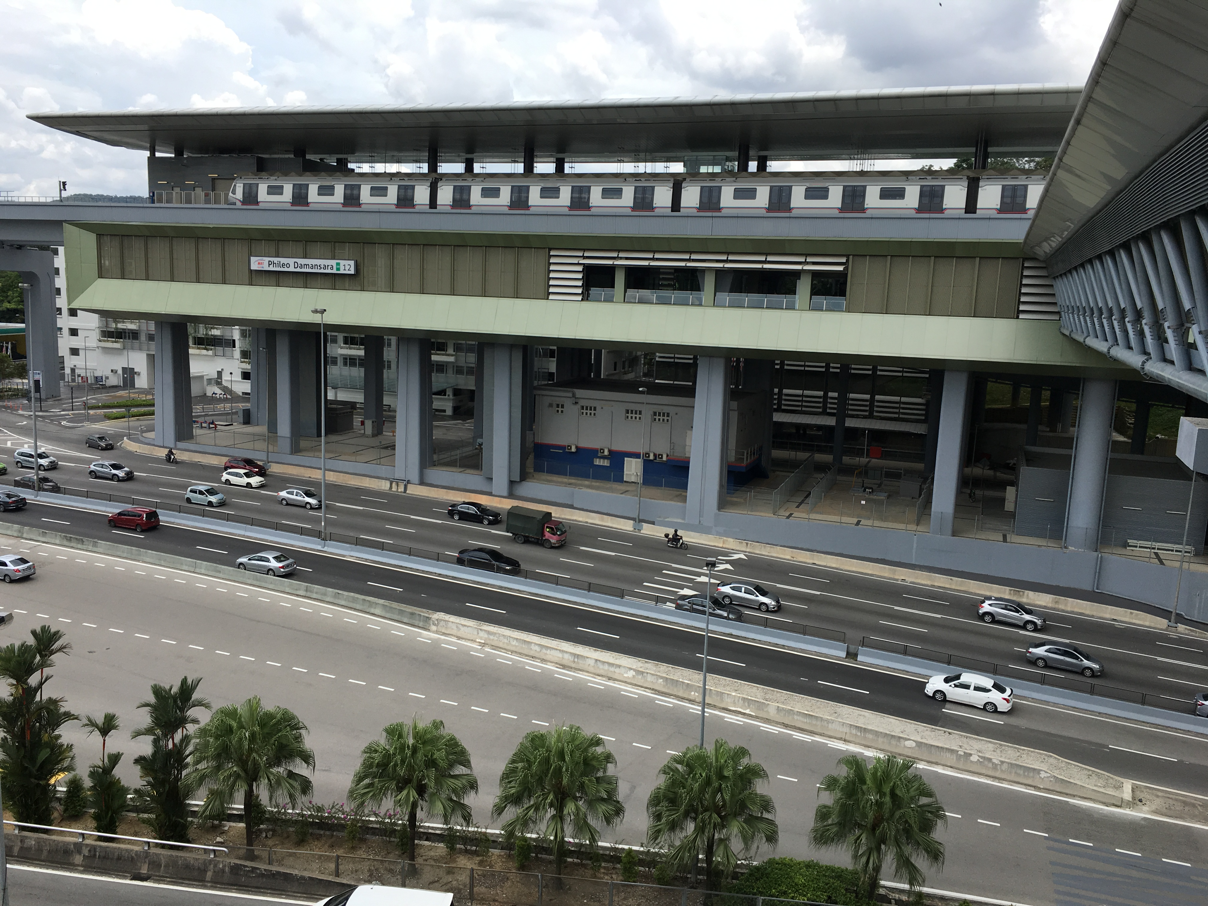 Phileo Damansara MRT Station along the Sprint Highway.